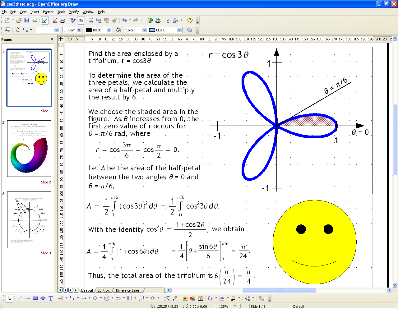 Screenshot of Draw 2.x The formulas are OpenOffice Math objects. The font used is Trebuchet MS. The trifolium was exported from Inkscape.